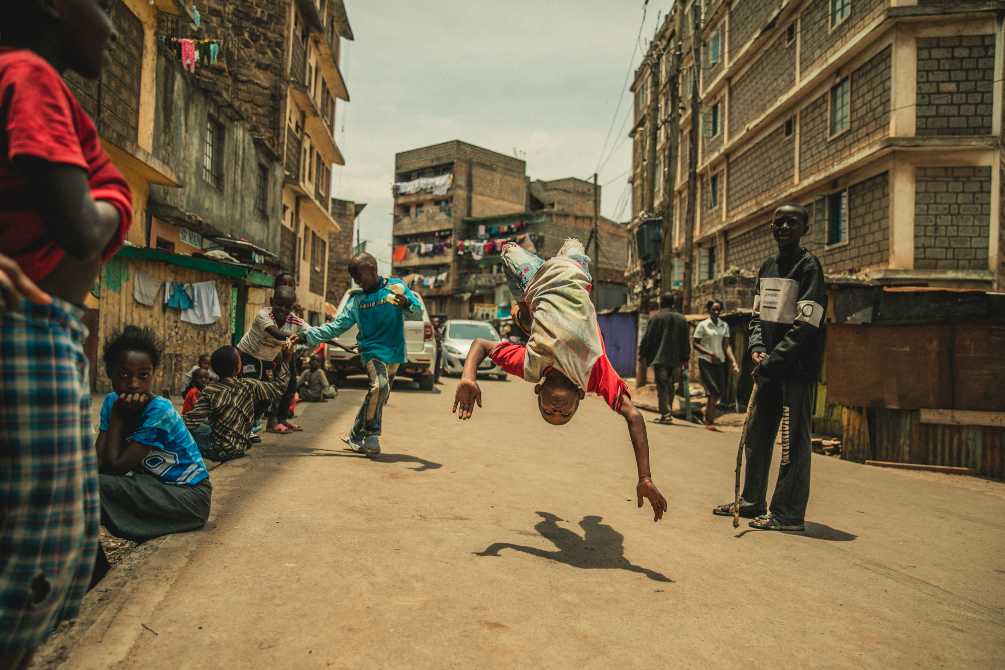 Mlango Kubwa is a slum in Nairobi, Kenya, with over 50.000 people. Among all the children around, i met this super talented kid which without any instruction learned how to be an acrobat. This is an image with the theme "Africa on the Move or Transport" from: Kenya